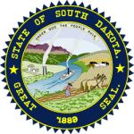 The South Dakota state seal.